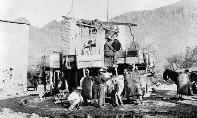 Miners operate a hydraulic sluice in San Francisquito Canyon, Sierra Pelona Mountains, Los Angeles County, California between 1890 and 1900. The placer mine machine consists of adobe columns, pulleys, ropes, and wood boxes. Donkeys are loaded with ore bags.